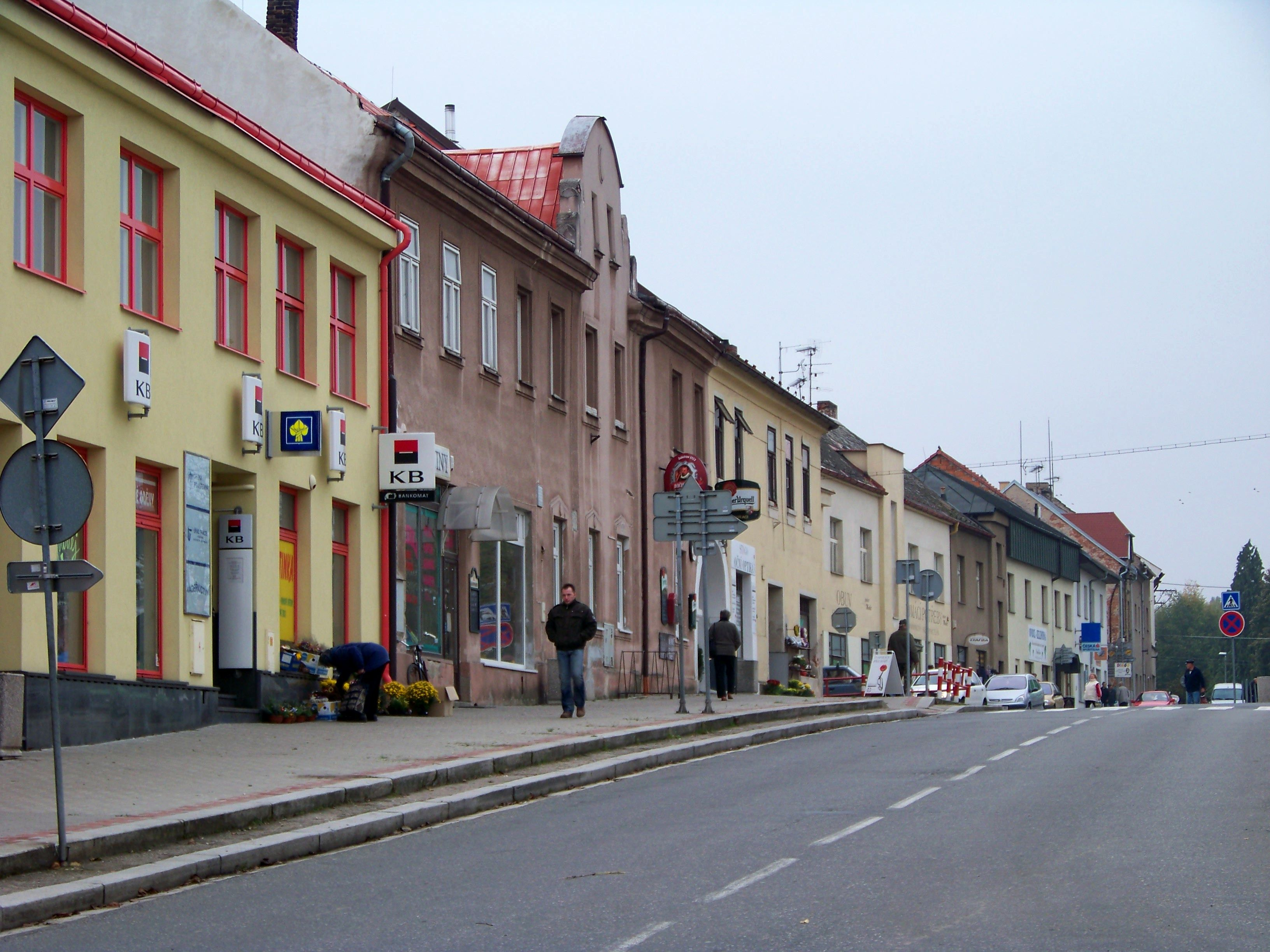 Uhlířské Janovice, Kutná Hora District, Central Bohemian Region, the Czech Republic.